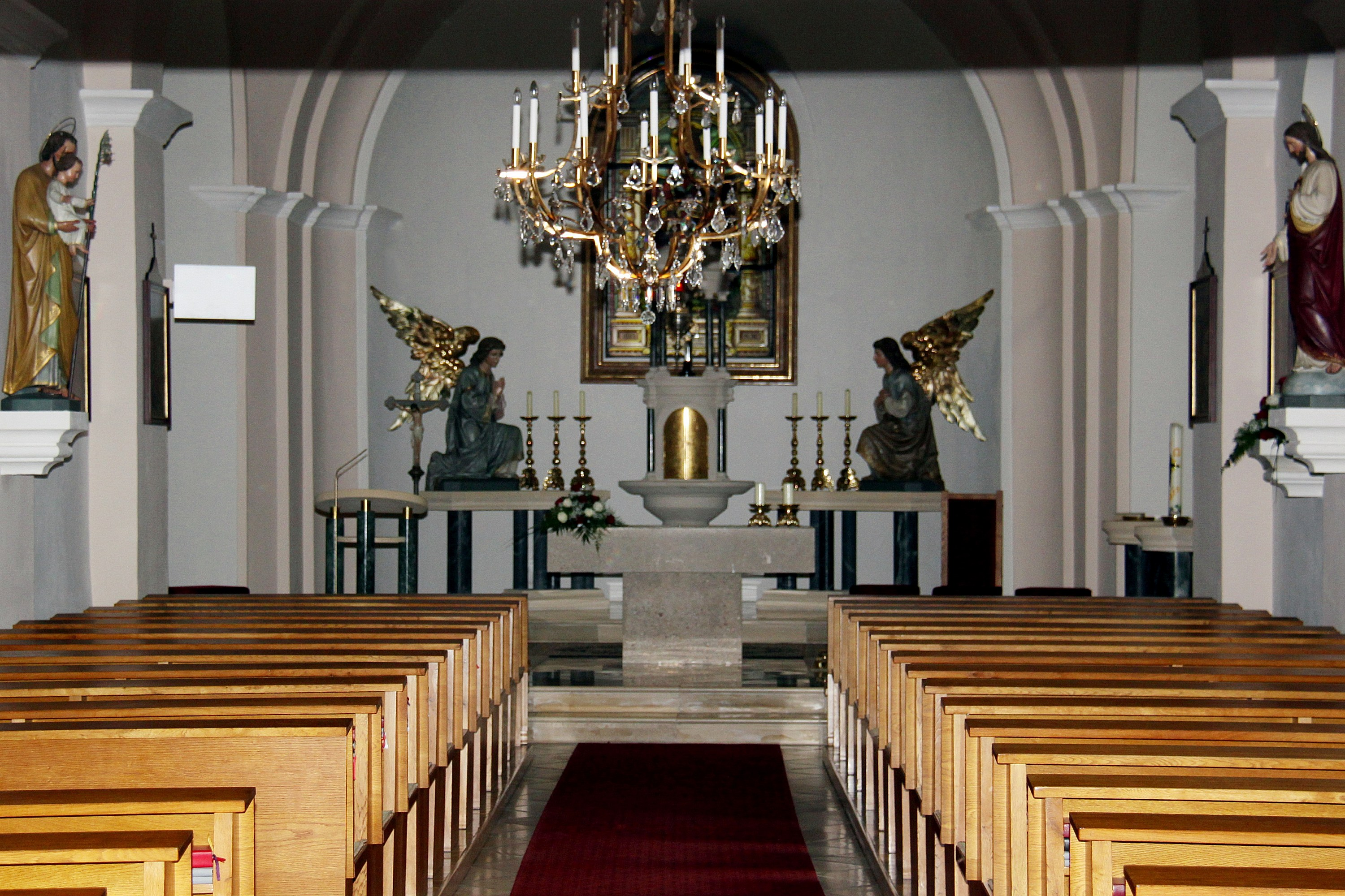 Parish church holy Sigismund - Krensdorf Object location47° 47′ 01.06″ N, 16° 24′ 57.47″ E